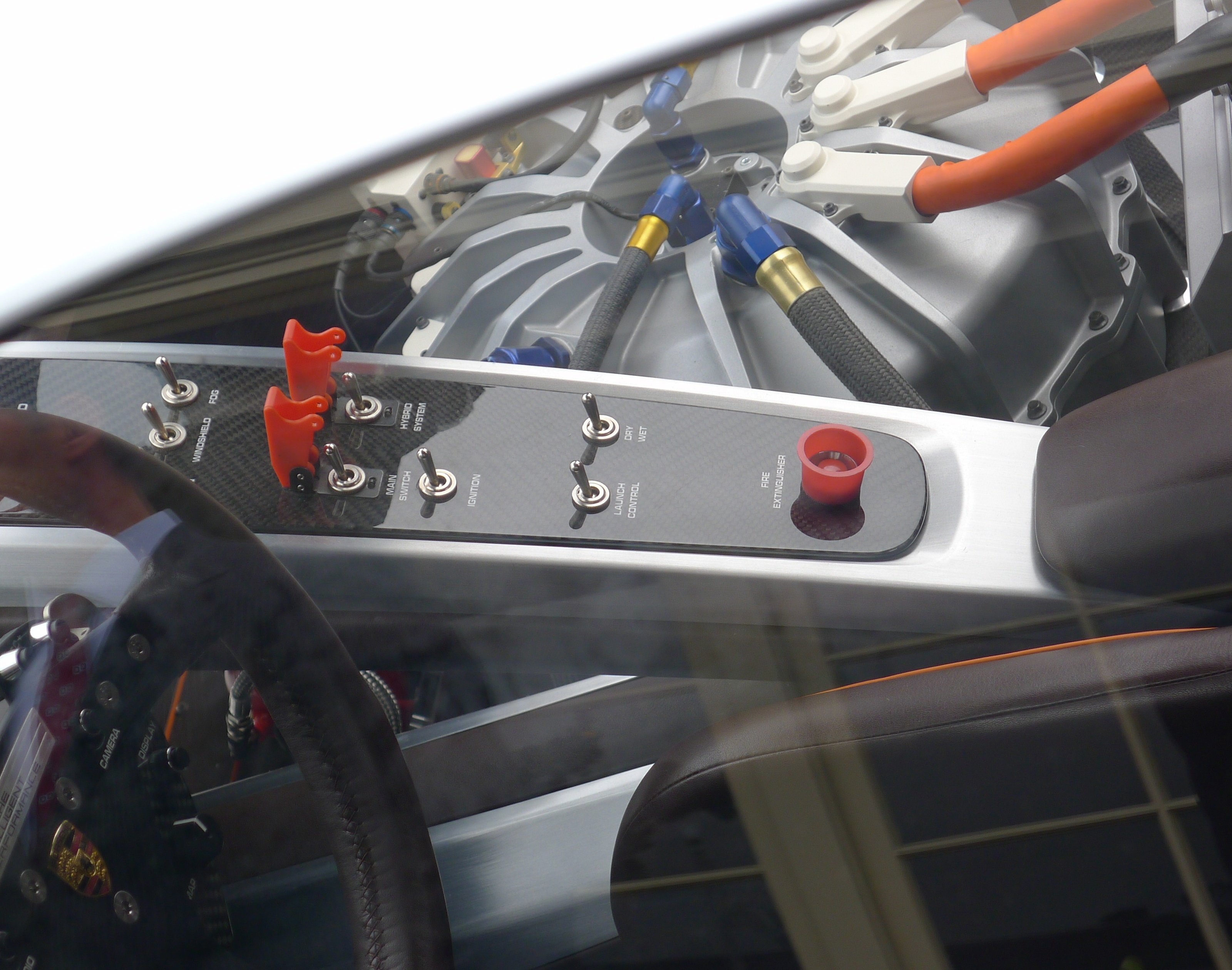 Porsche 918 RSR center console and flywheel accumulator KERS system. Original description: "Switches and the awesome flywheel. YOUR PRIUS AIN'T SHIT!"